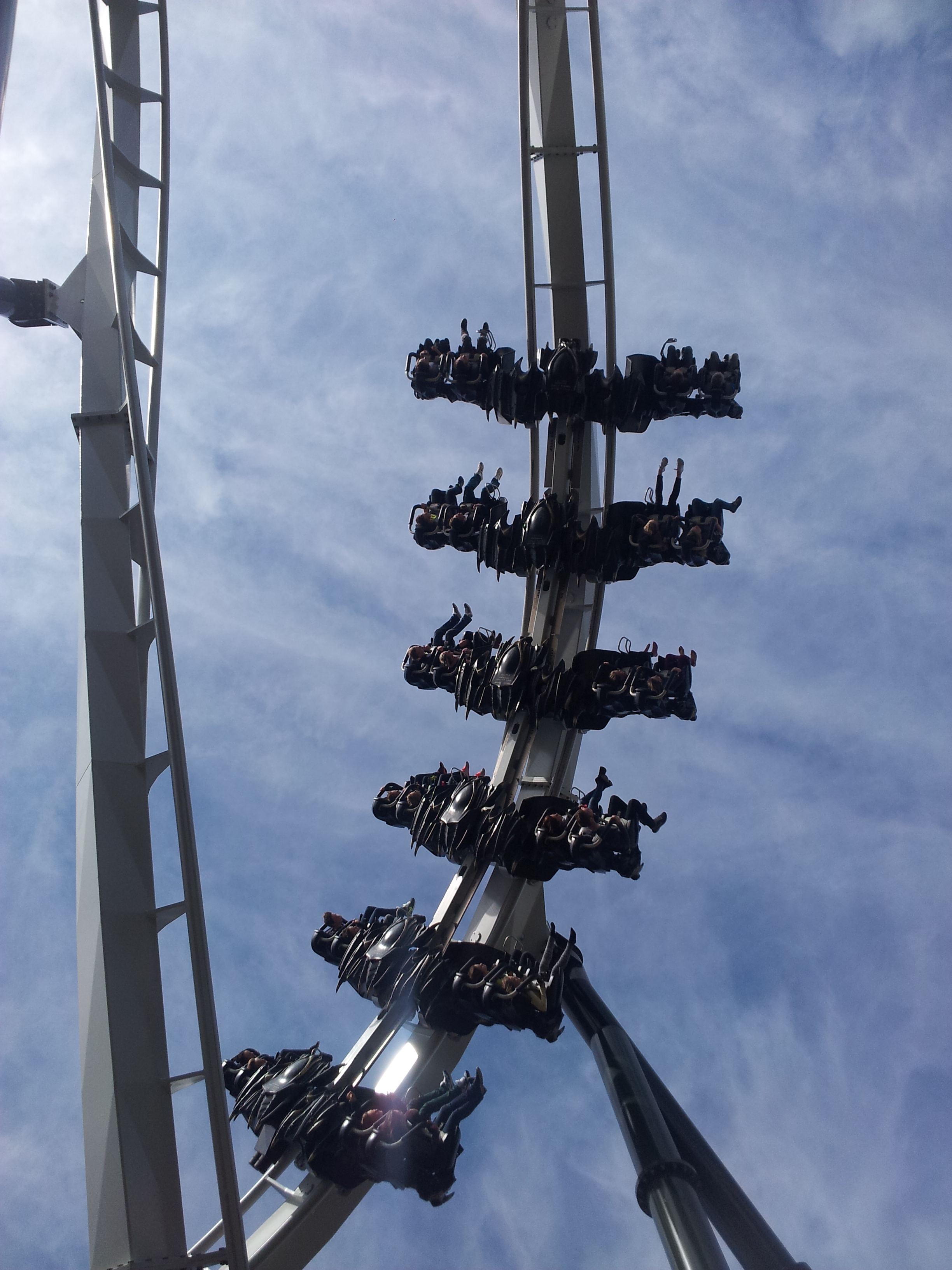 The Wing Coaster at Heide Park Resort in Soltau, Germany.